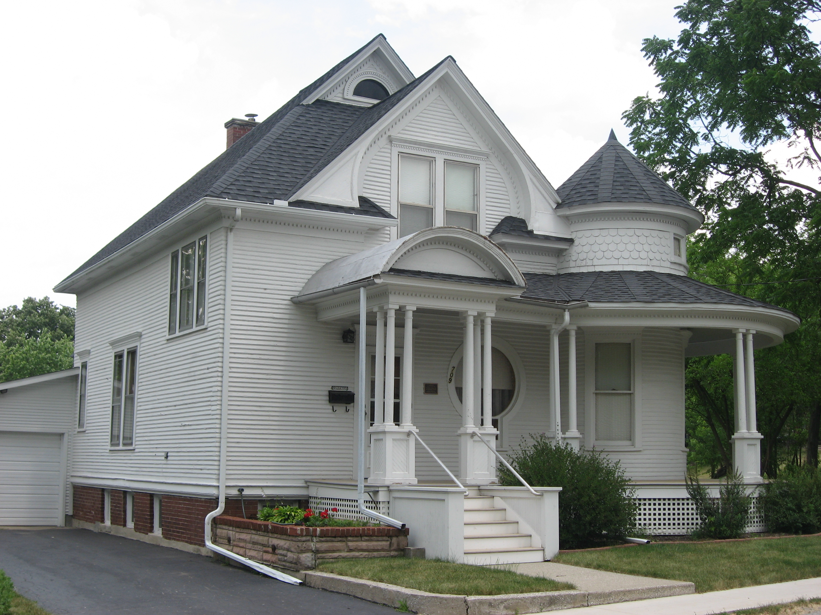 Front and western side of the J. Claude Rumsey House, located at 709 Michigan Avenue in Lowell, Indiana, United States. Built in 1906, it is listed on the National Register of Historic Places.